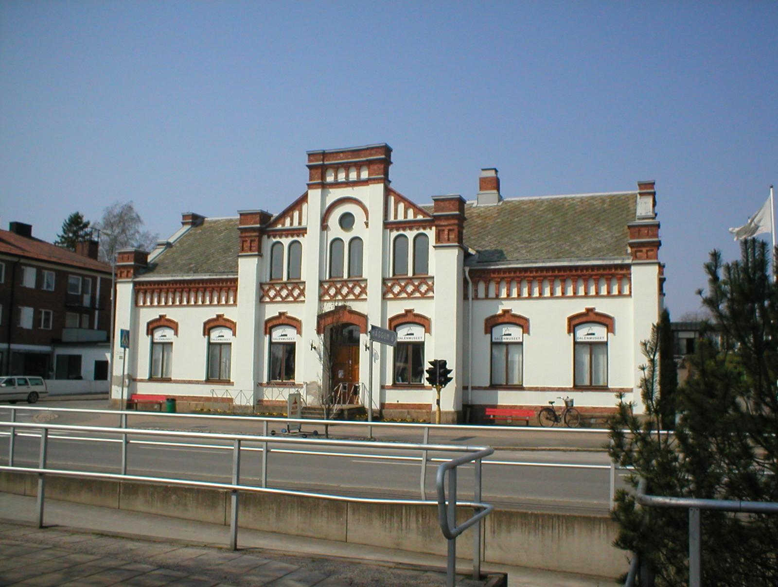 Photo of the Gustaf Dalén Museum, Stenstorp, Sweden